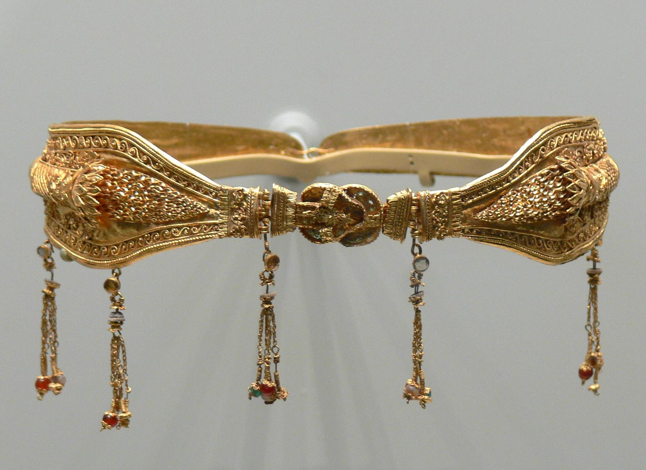 Diadem. Gold. Greek, probably made in Alexandria, Egypt, 220 - 100 B.C. The piece probably belonged to a noble woman of the Ptolemaic dynasty in Egypt. The clasp is shaped as a protective Herakles knot